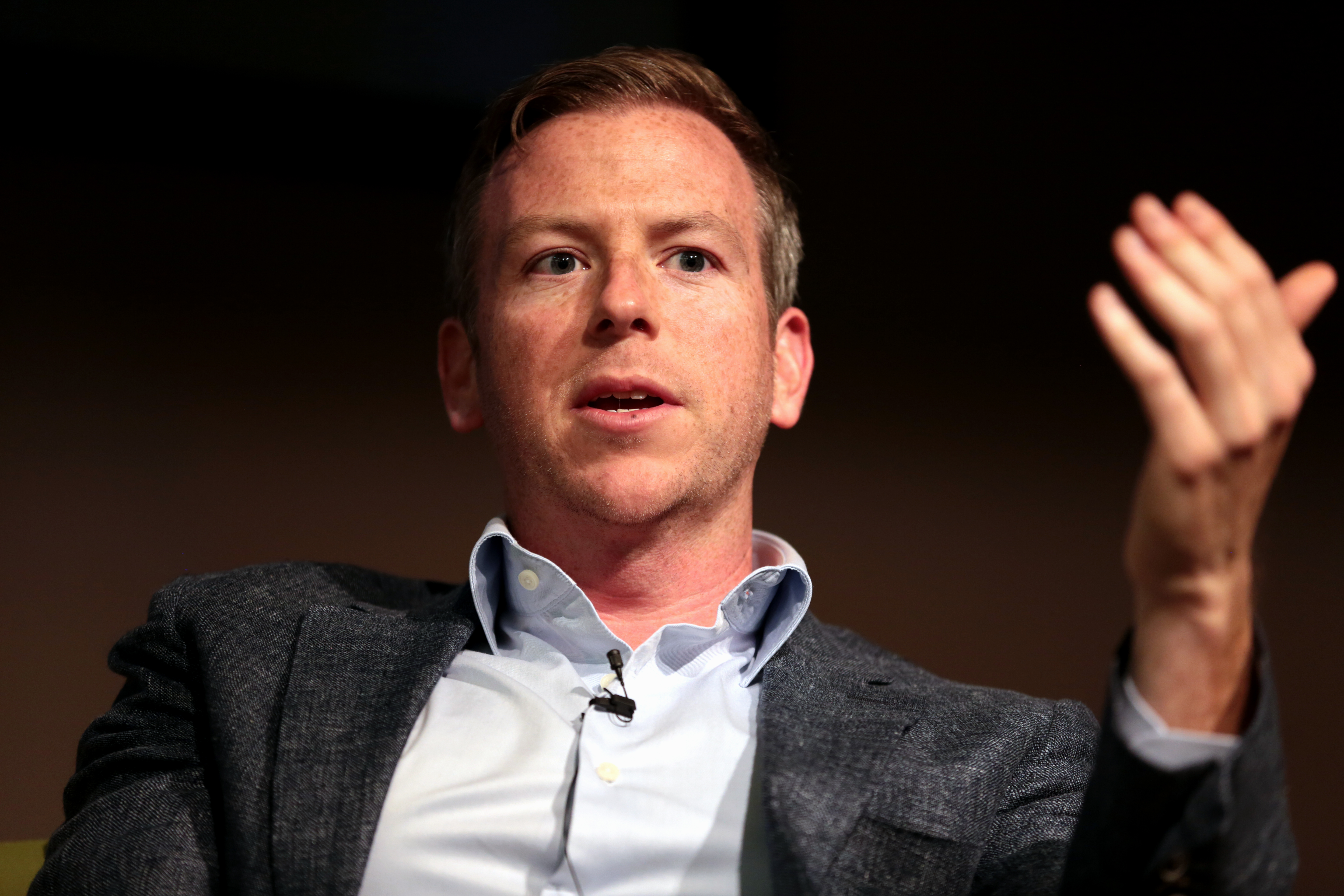 Peter Hamby speaking with attendees at the Walter Cronkite School of Journalism and Mass Communication at Arizona State University in Phoenix, Arizona.